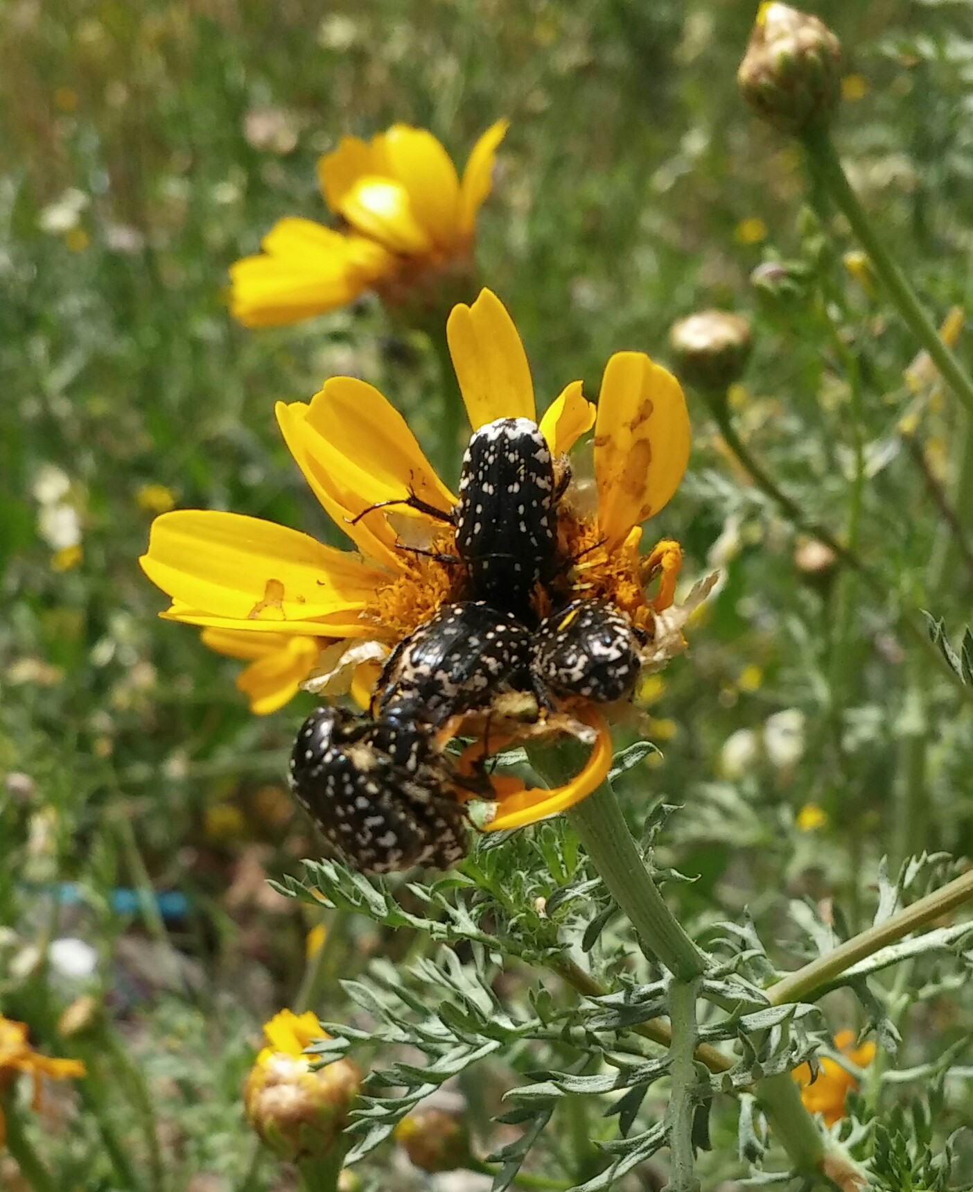 Four black beetles of the species Oxythyrea noemi on a yellow flower.